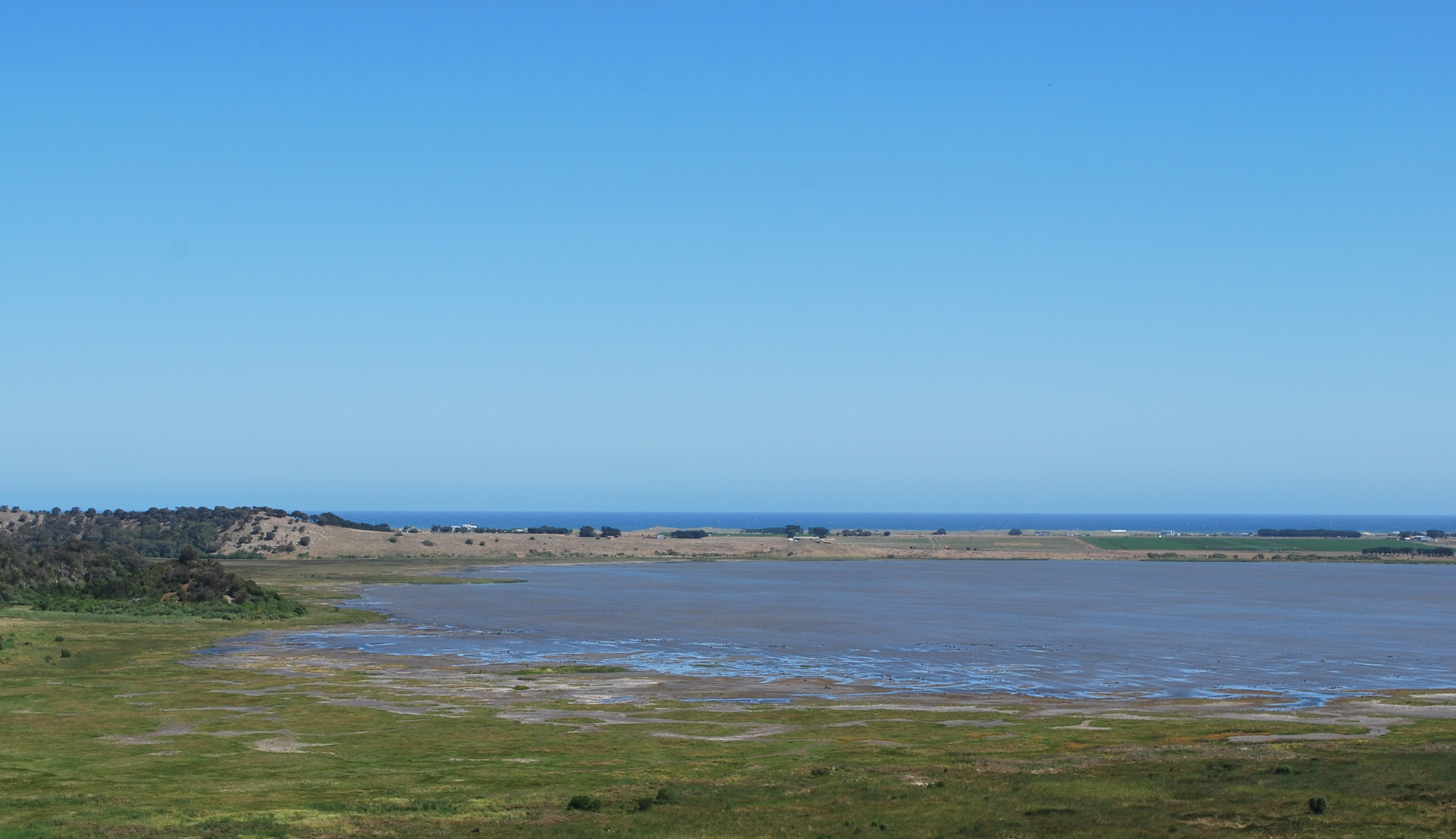 Tower Hill Lake at Koroit, Victoria